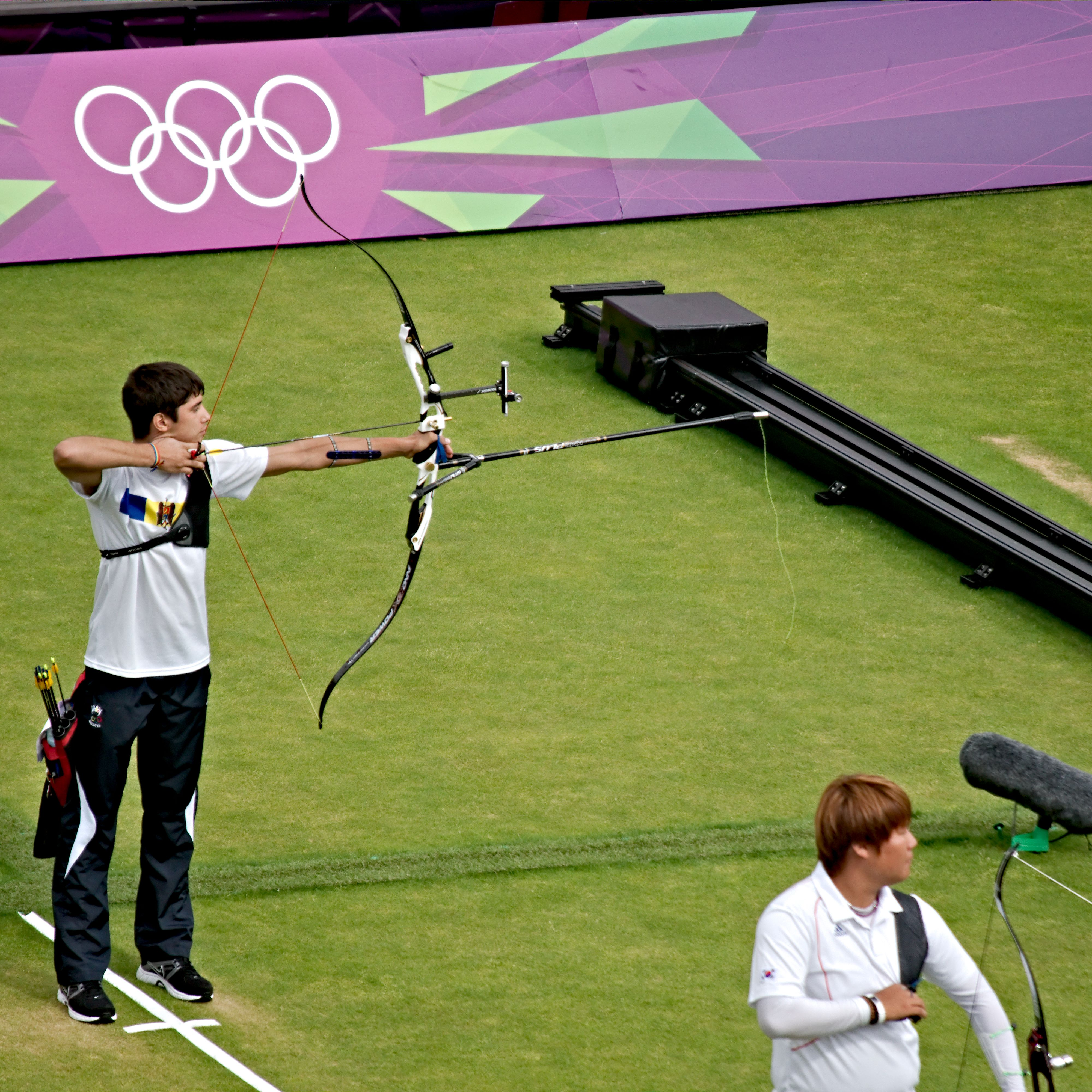 Shooting in the last 16